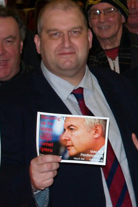 Carl Sargeant AM at a 'Welsh Labour Says Yes' event at Connah's Quay Labour Club. January 21st 2011.